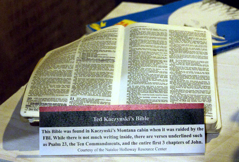 National Crime Museum (9)